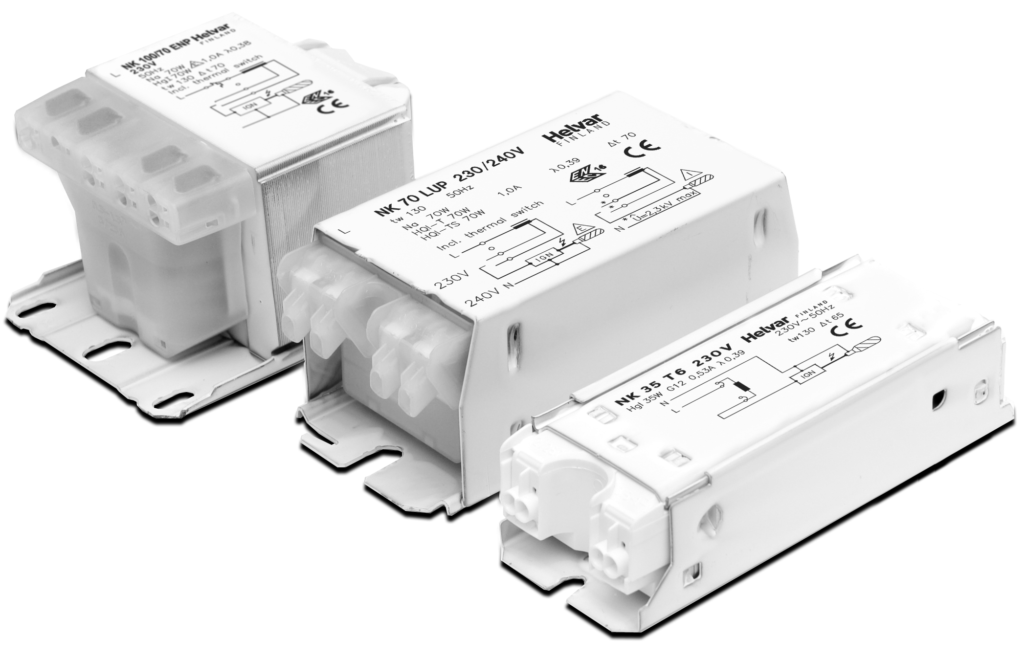 High Intensity Discharge ballasts for Natrium and Metal Halide lamps